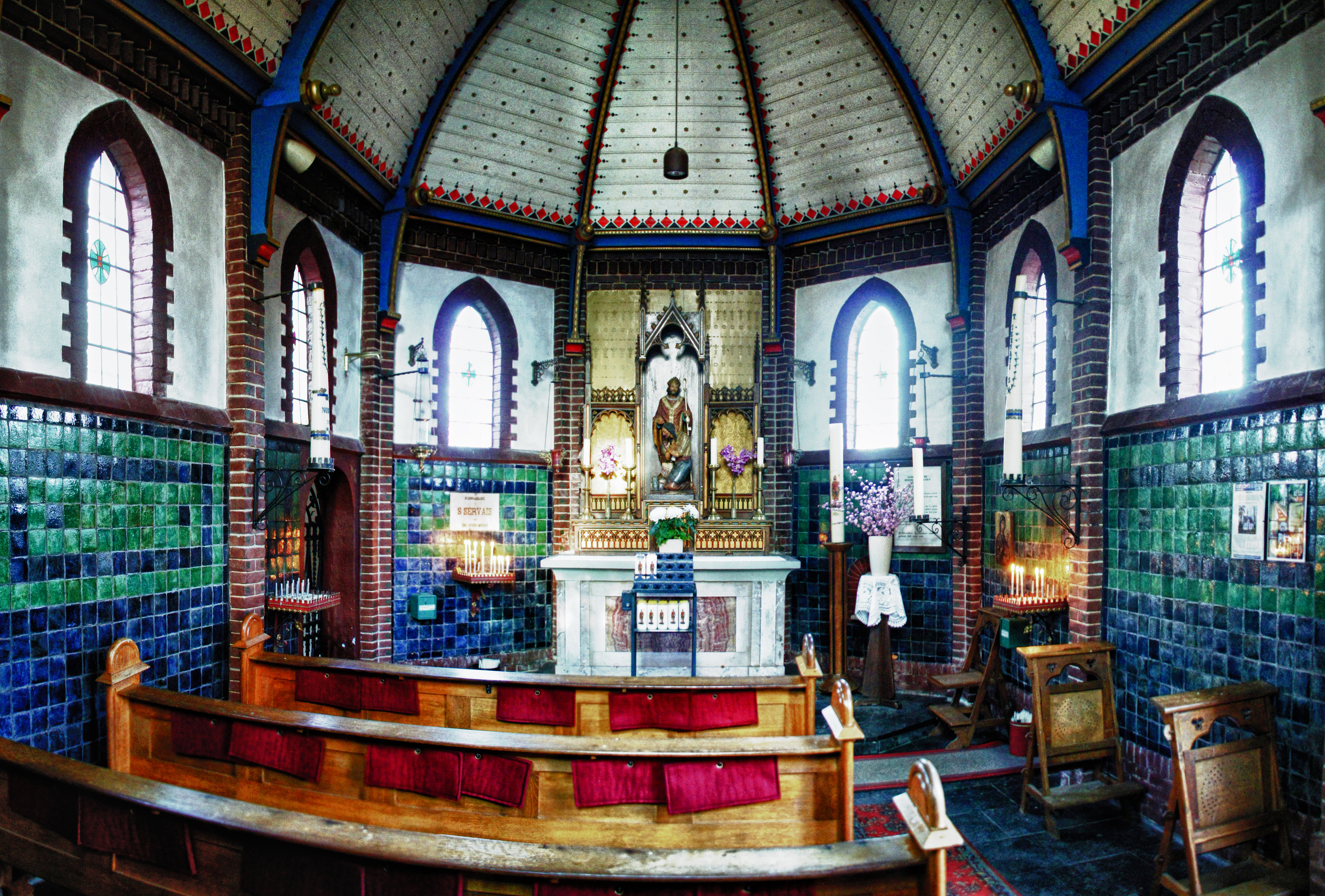 Nunhem - Limburg - the Netherlands